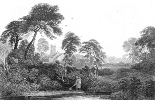 Prestbury, in Cheshire, viewed from the River Bollin. The image is dated 1819 and was published in a book by George Ormerod, who died in 1873.